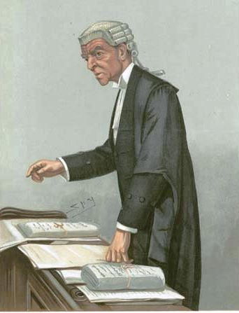 Caricature of Sir Robert Alfred McCall, KCVO, KC (1849-1934). Caption read "Ulsterman KC".